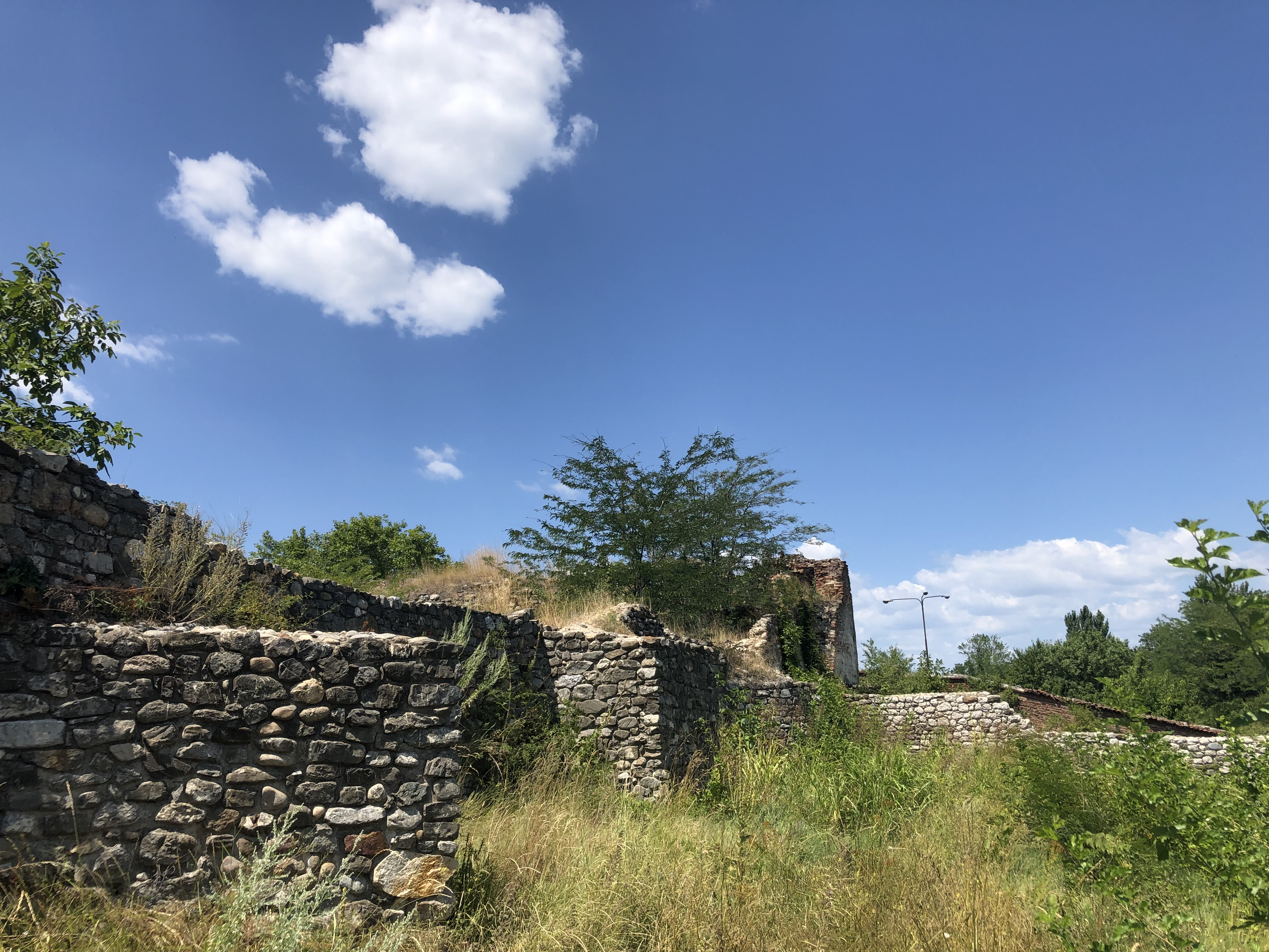 Fetislam fortress is located in Serbian city of Kladovo. It was constructed by ordres of Suleiman the Magnificent in 16th century.